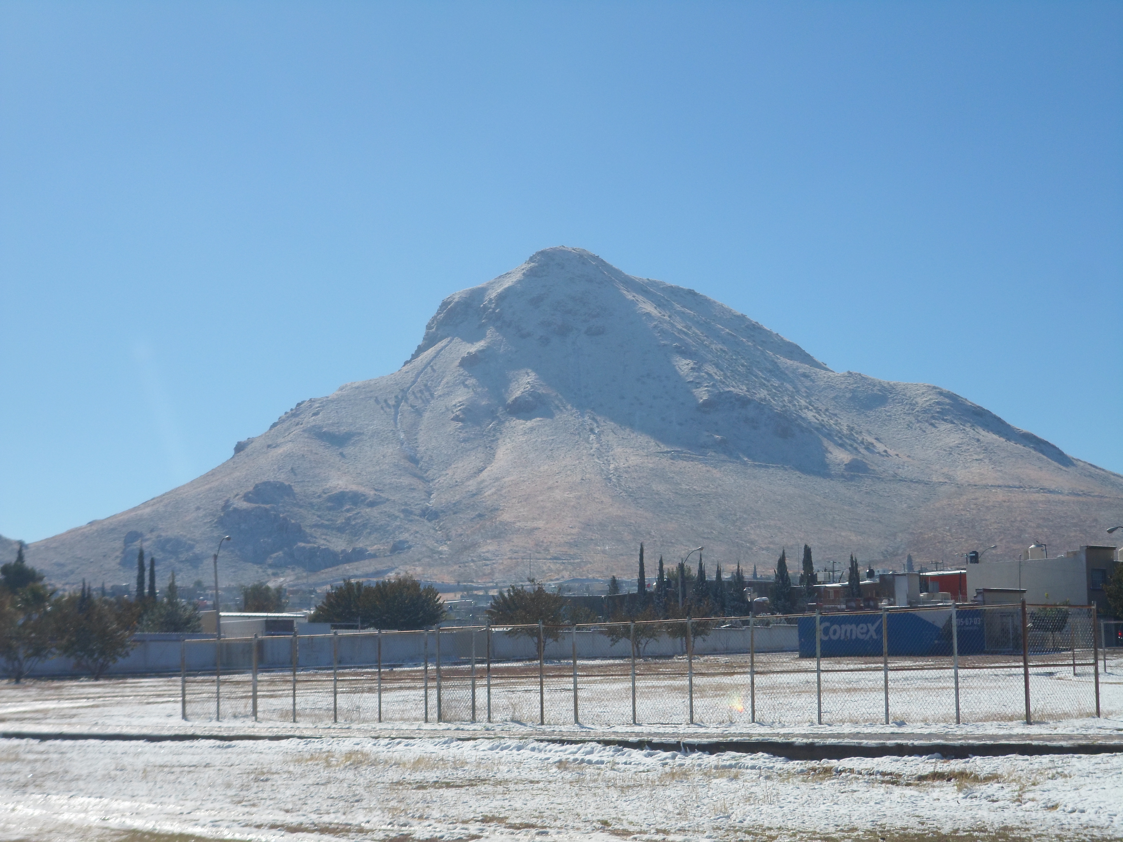 Snow in the Cerro Grande mountain in Chihuahua City